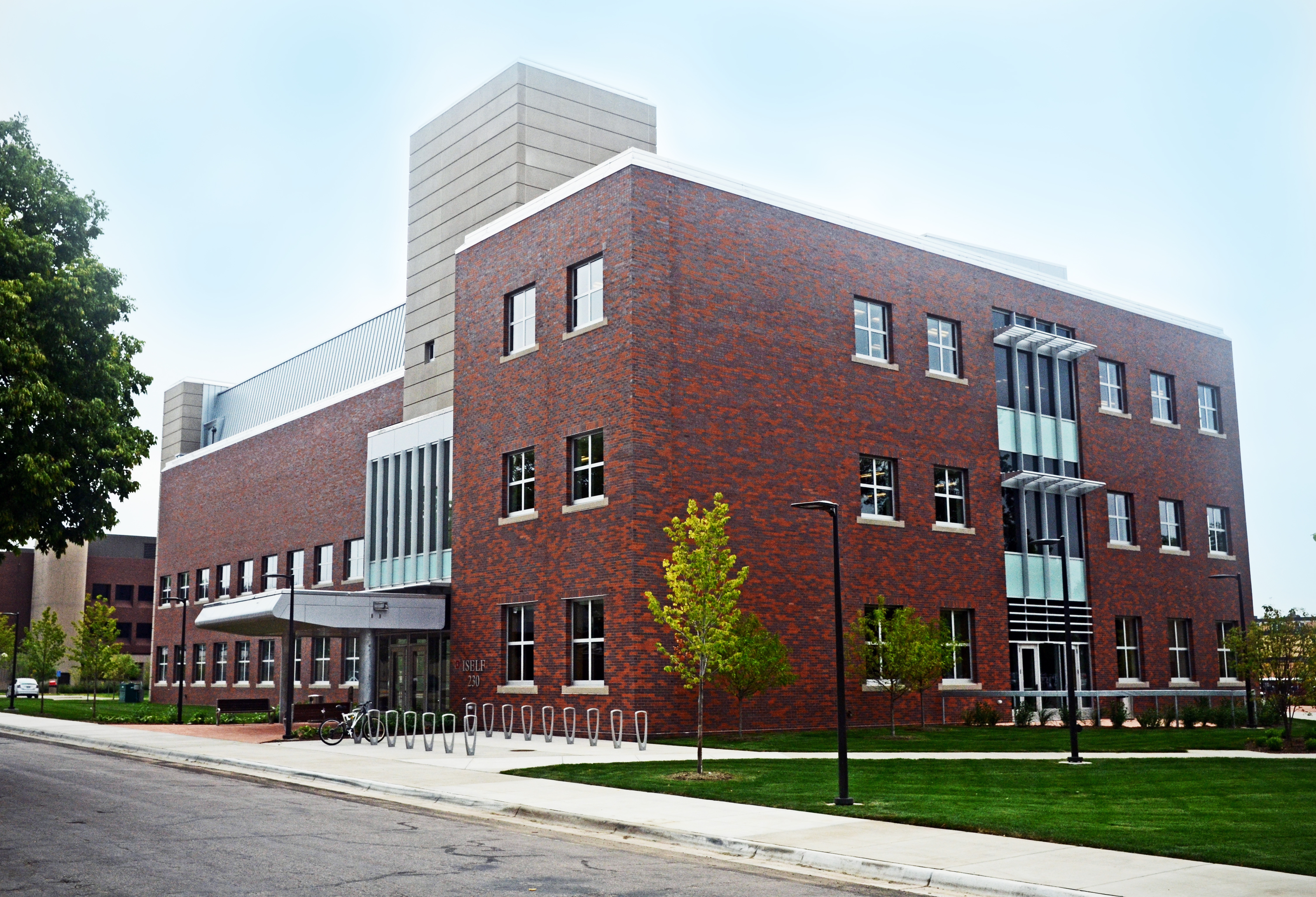 Iself Science Building, St.Cloud State University, MN 2013